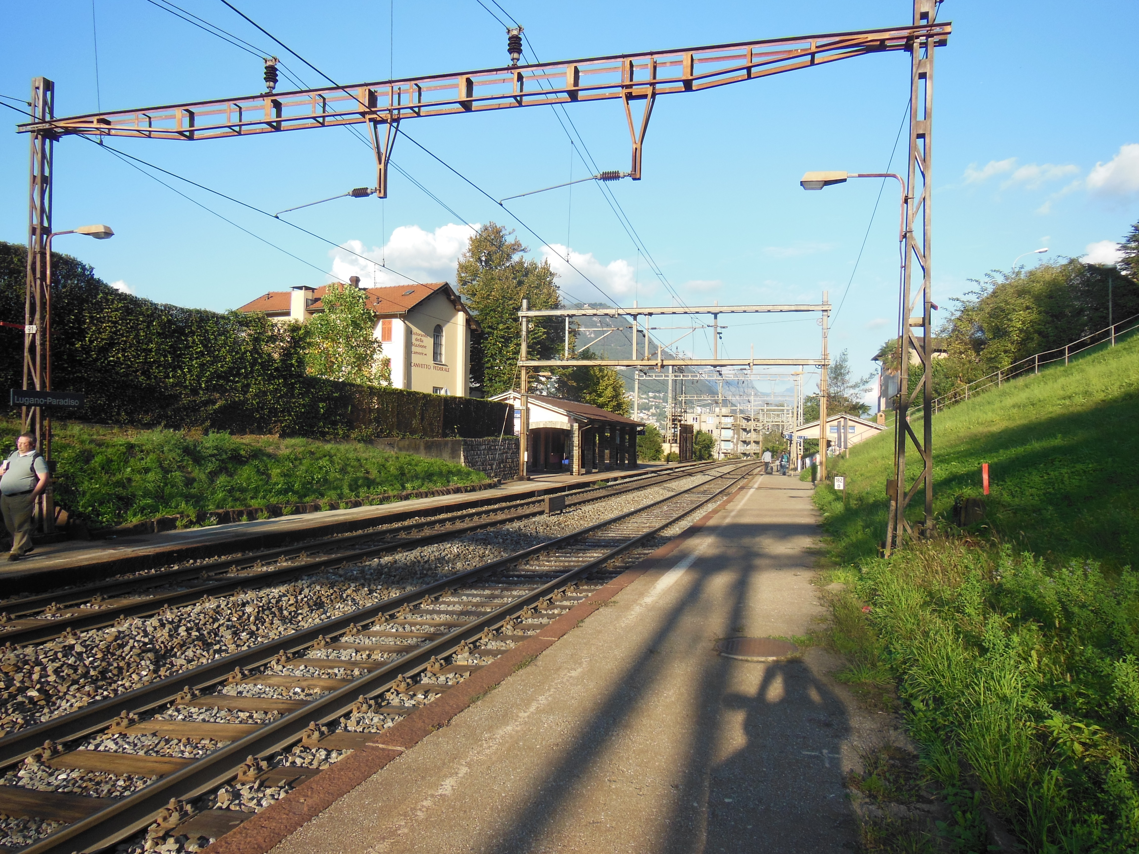 Lugano-Paradiso railway station in Switzerland. For more information, see Lugano-Paradiso railway station.